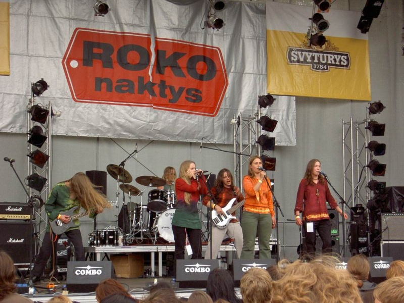 Žalvarinis performing at "Rock Nights 2005" festival in Plateliai, Lithuania.